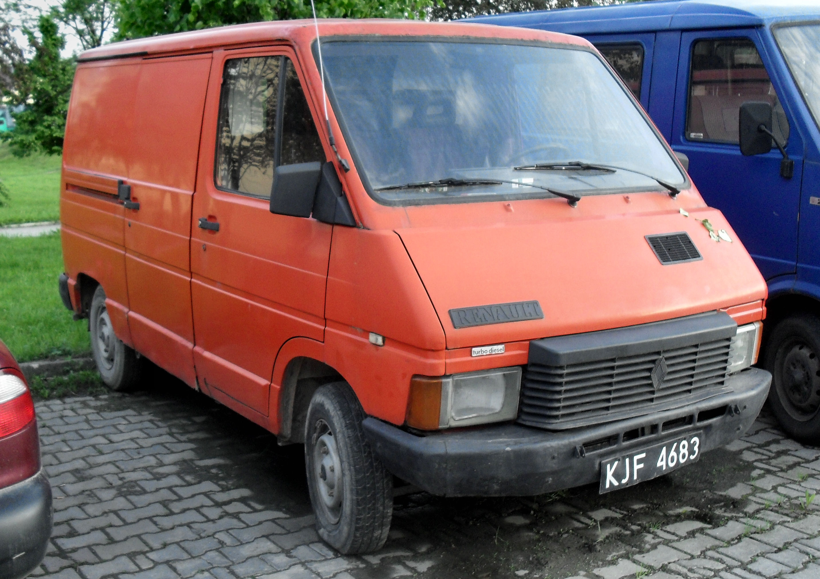 Renault Trafic seen in Jasło, Poland.